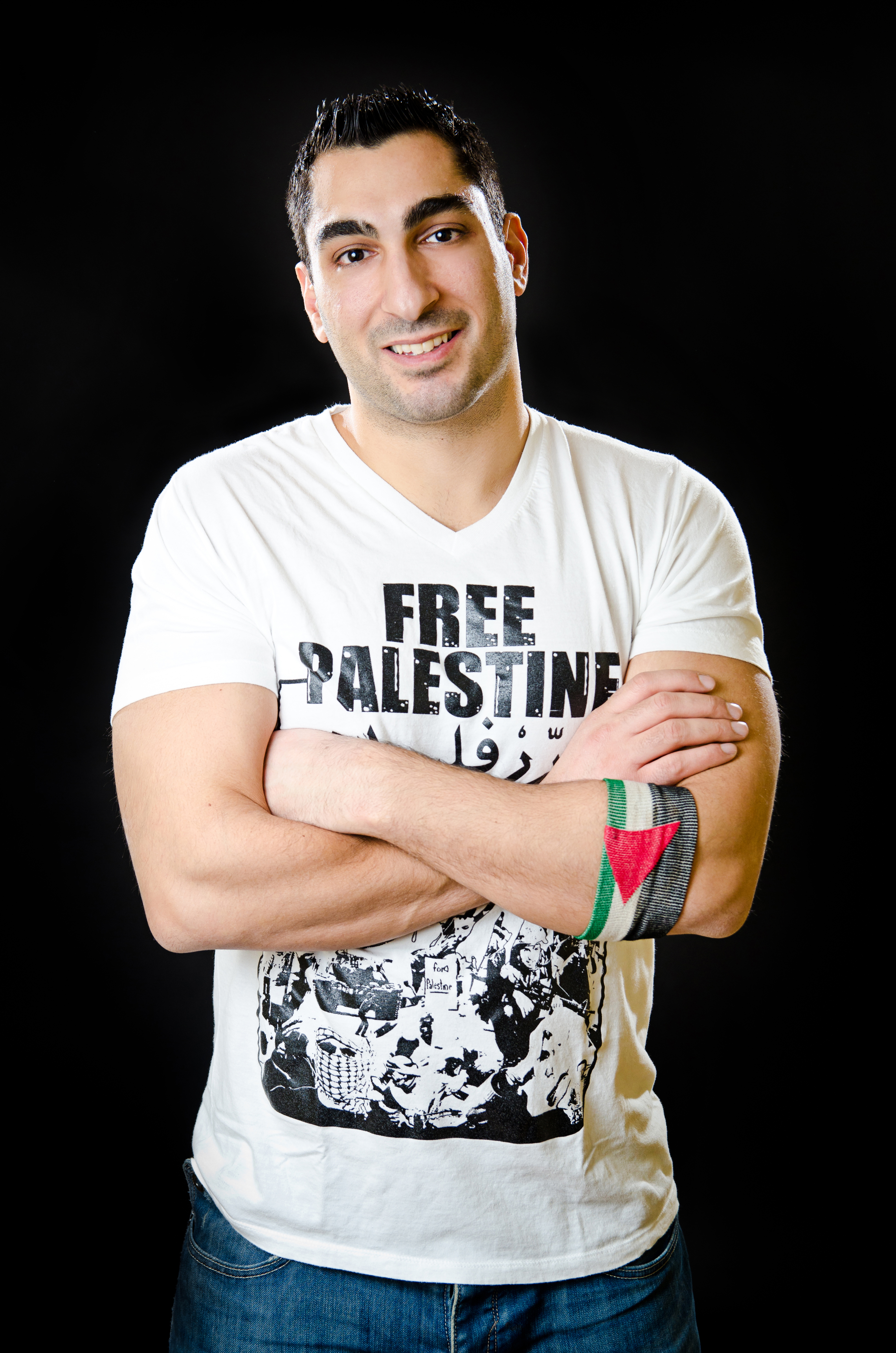 Photo of Remi Kanazi taken on 12/26/2011